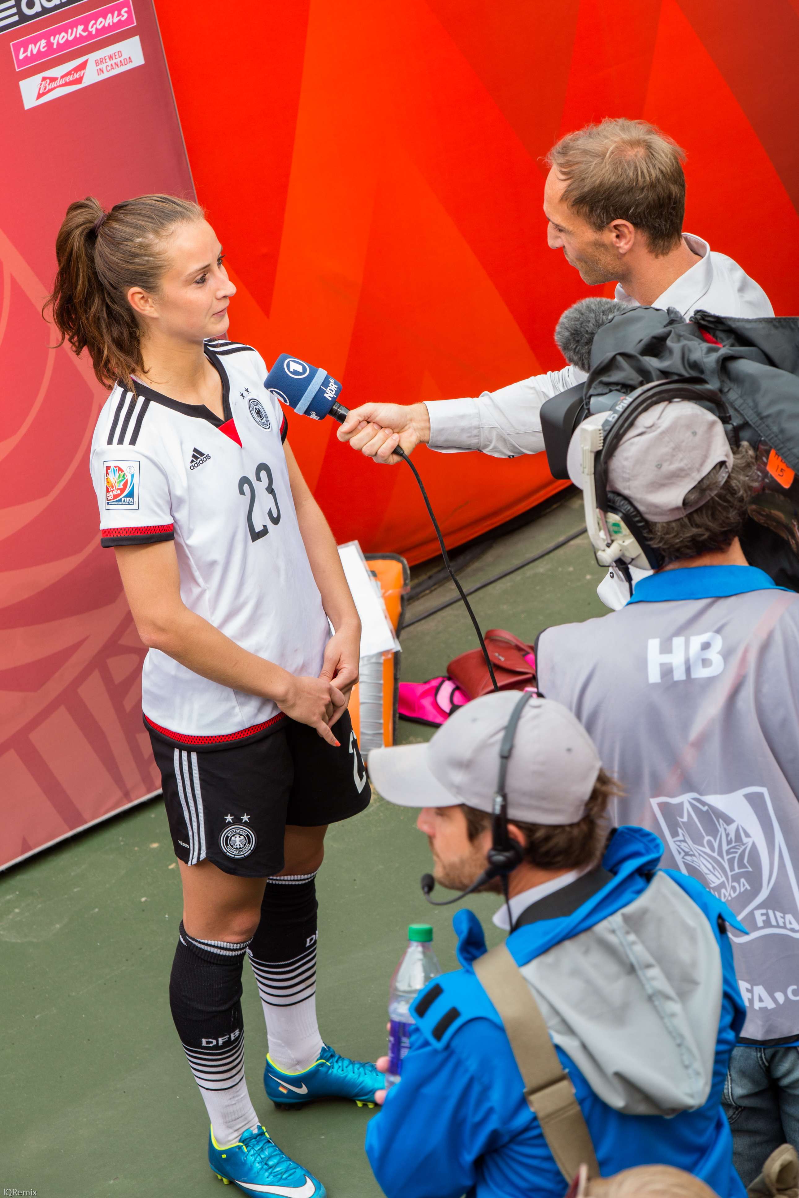 FIFA Women's World Cup Canada 2015 - Edmonton